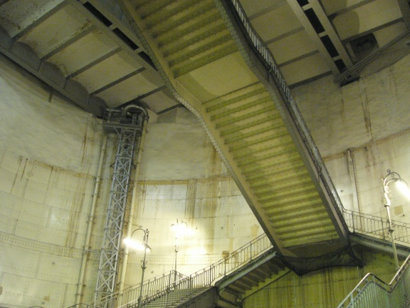 This is the unused caisson at the north end of the Cité Métro station.